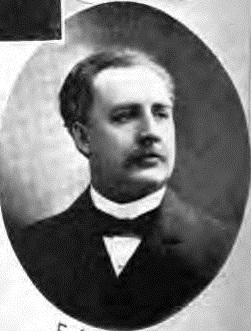 Portrait of New York supreme court justice Emory A. Chase